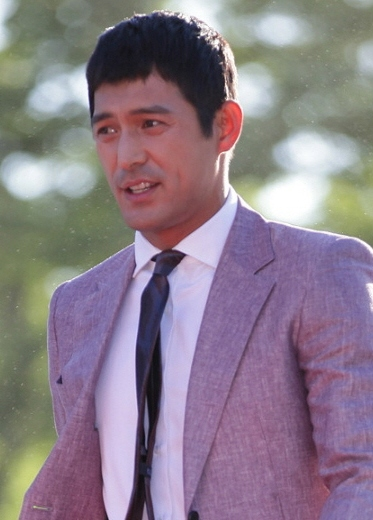 제19회 부천국제판타스틱영화제 개막식 레드카펫 part.1